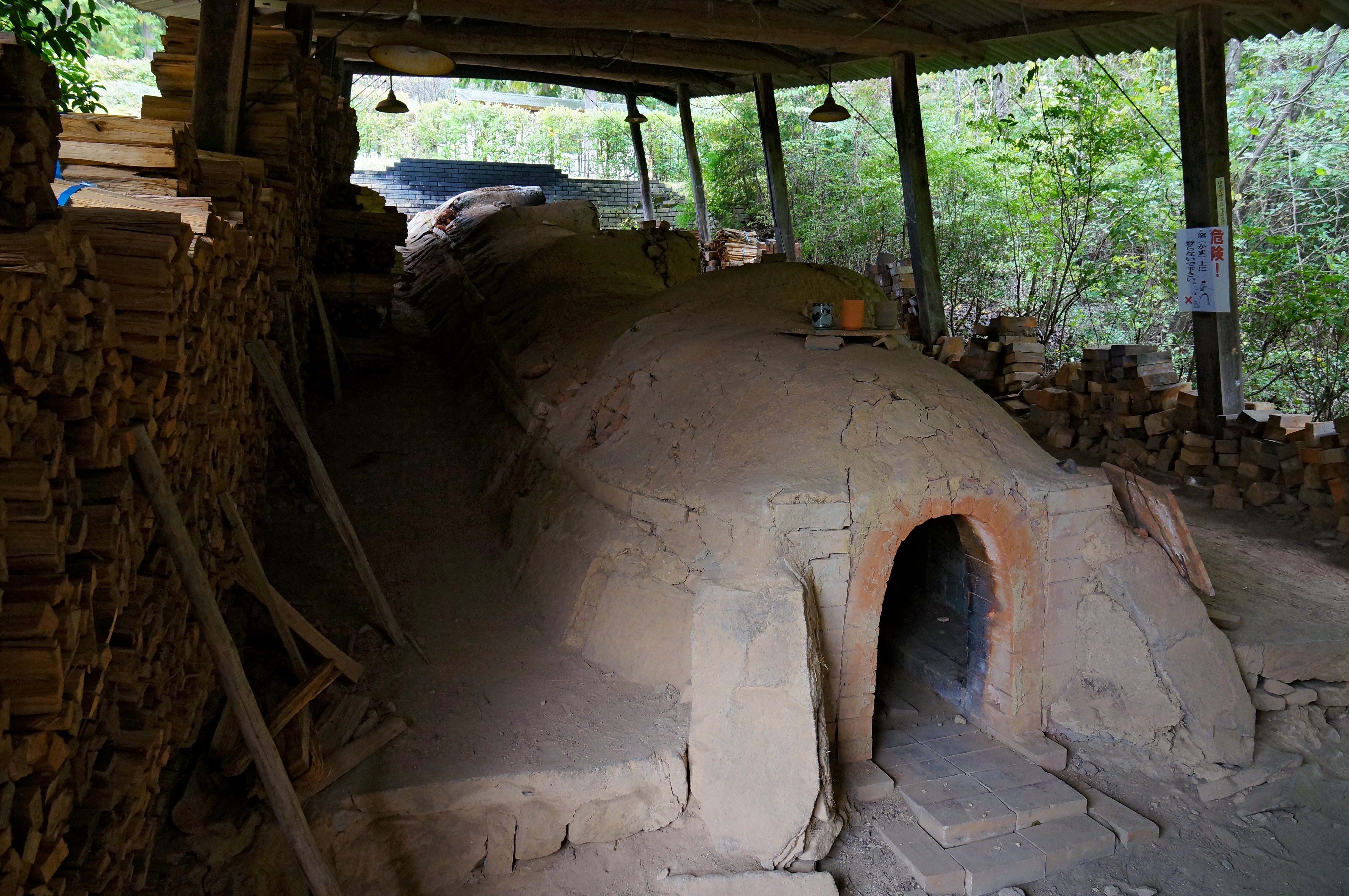 At Tachikui Sue-no-sato in Sasayama, Hyogo prefecture, Japan.